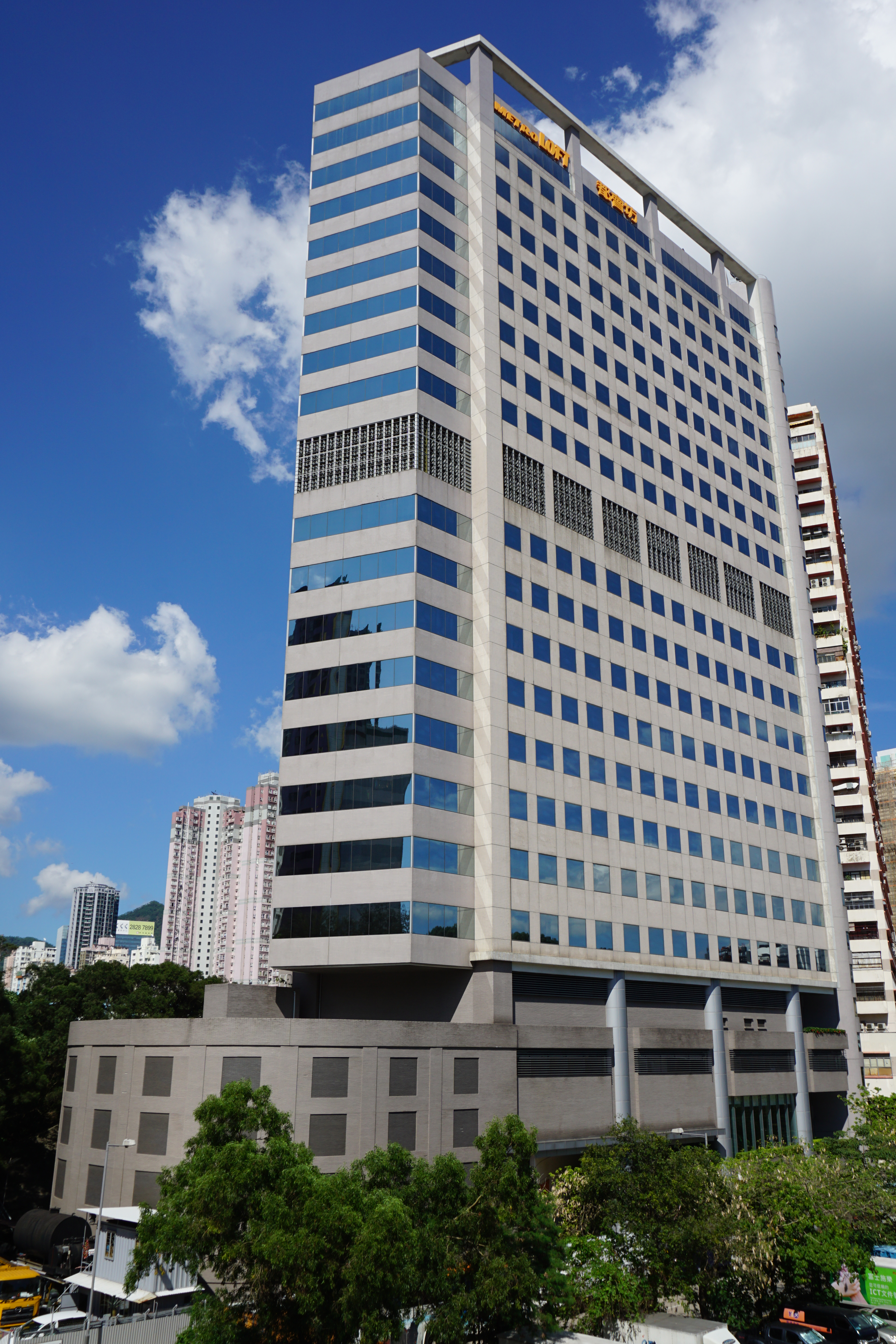 MetroLOFT in Kwai Chung, Hong Kong.